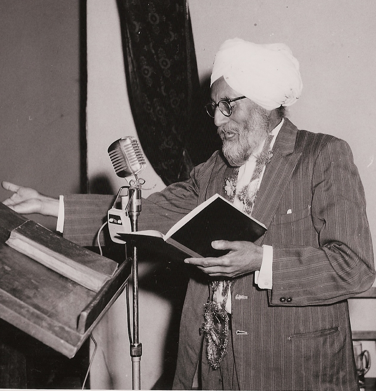 Ishar Singh 'Ishar' Bhaiya reciting a poem